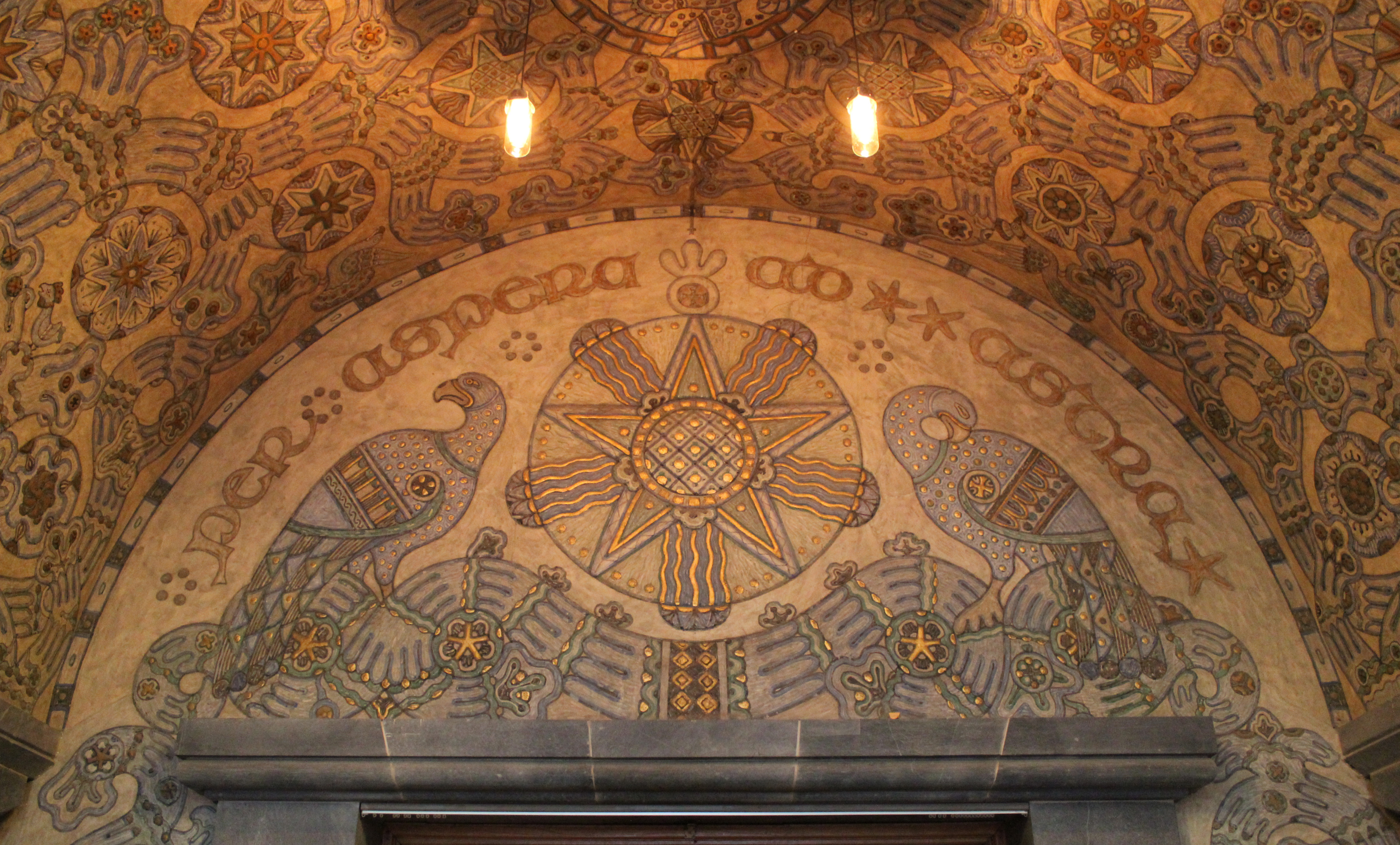 Painting by the artist Martin Enevold Thømt above the entrance to the library in Hovedbygningen (=the main building), originally erected for The Norwegian Institute of Technology in 1910. Architect: Bredo Greve. The building is located at what is now known as Campus NTNU Gløshaugen, Trondheim.